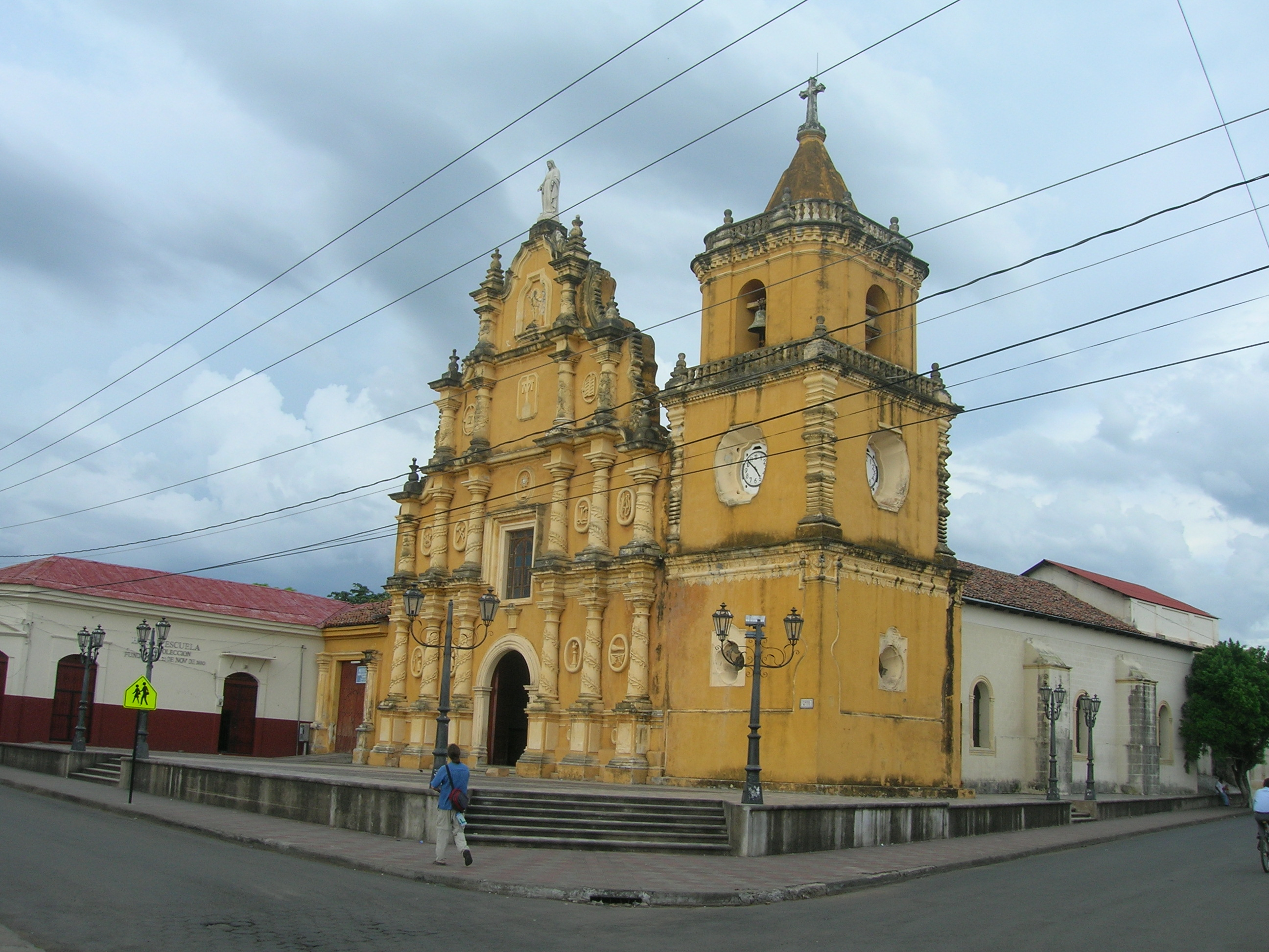 Iglesia la Recolección in León, Nicaragua